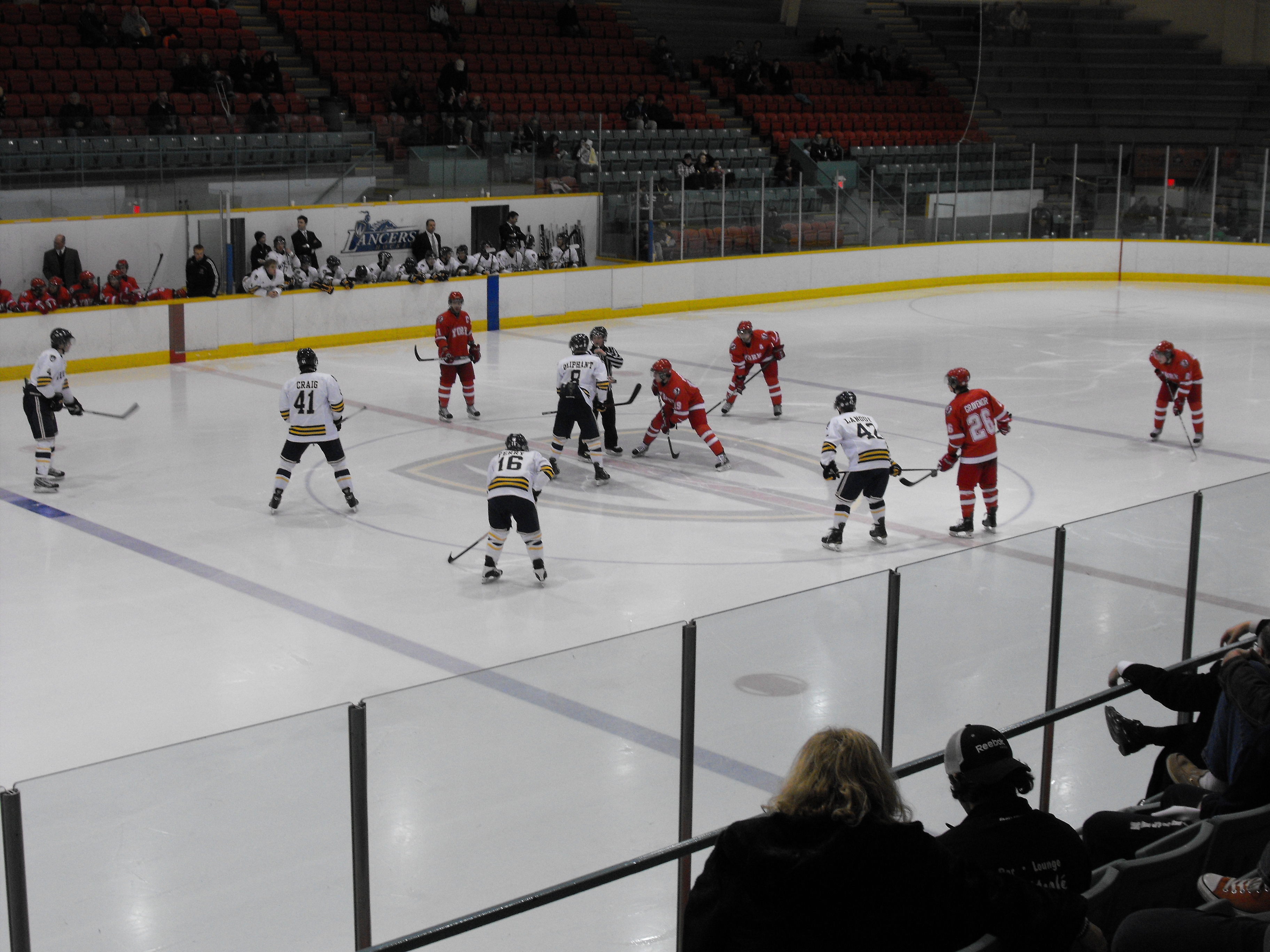 OUA playoff faceoff Feb 16, 2012 Windsor Lancers, York Lions